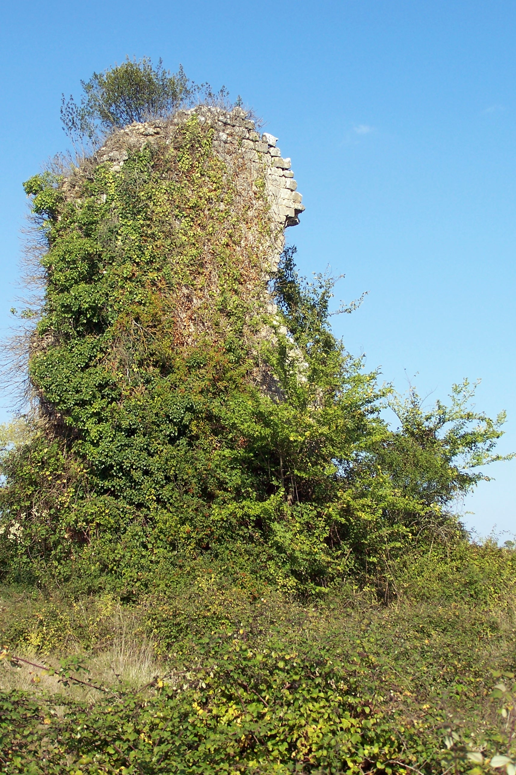 Ruins of the castle of Aillas (Gironde, France)